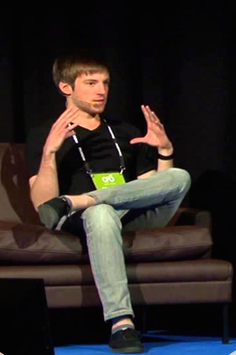 Justin Waldron at the Arctic15 conference in Helsinki, Finland.